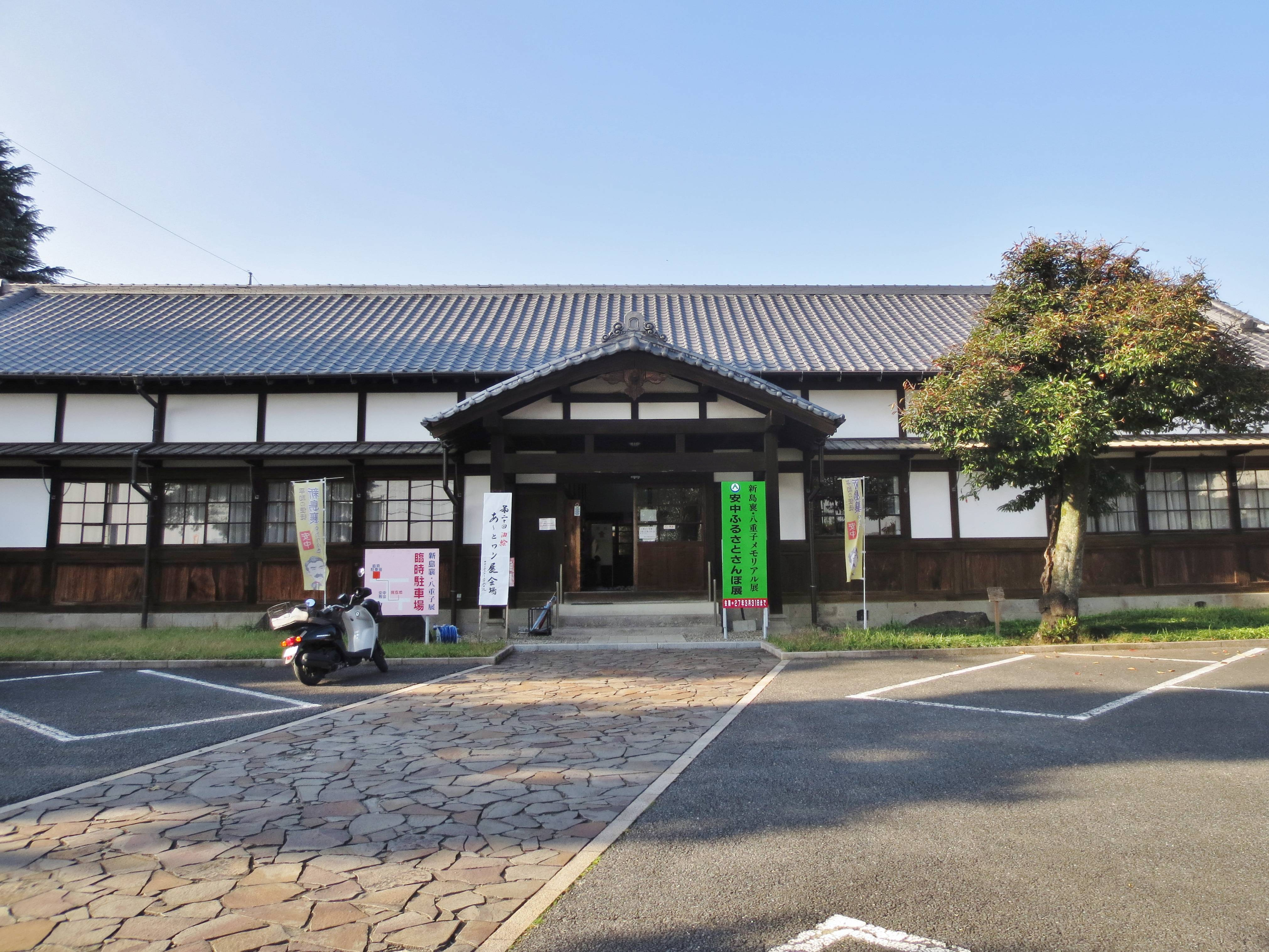 The remains of the Usui Magistrate’s office.